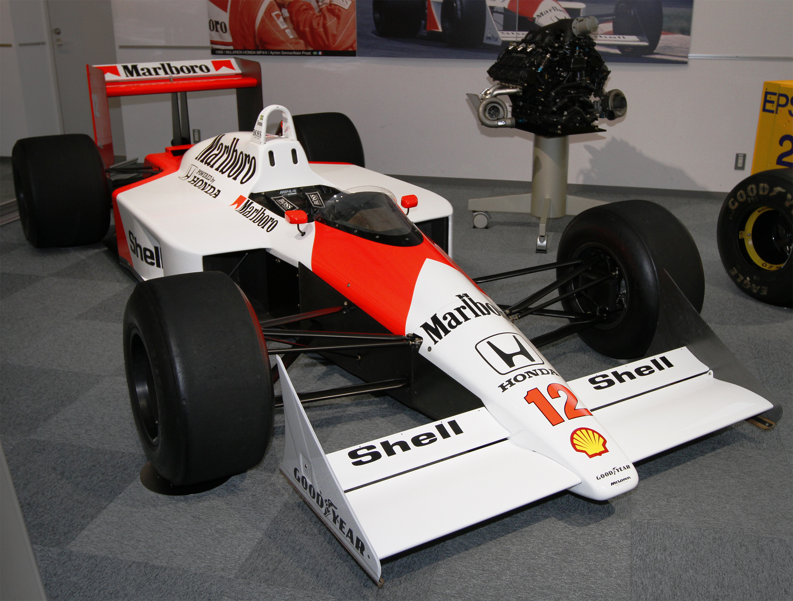 McLaren MP4/4 (Chassis #5, driven by Ayrton Senna in 1988) and the Honda RA168E engine.